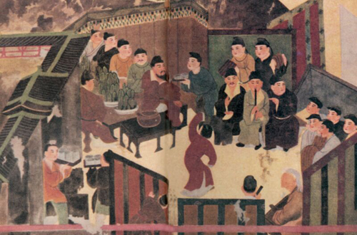 Song dynasty painting of a Han dynasty literary gathering in the Liangyuan of King Xiao of Liang.